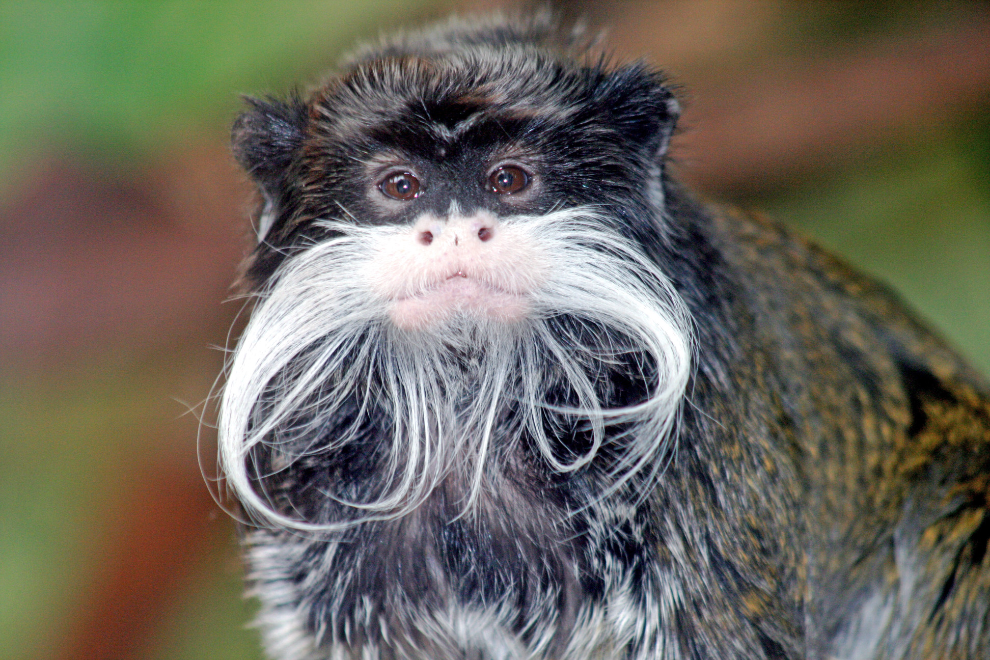 Emperor Tamarin The source image has been adjusted in brightness and reduced in size.